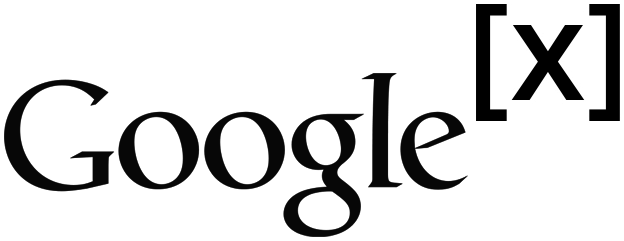 Logo of Google X - Universal Use.